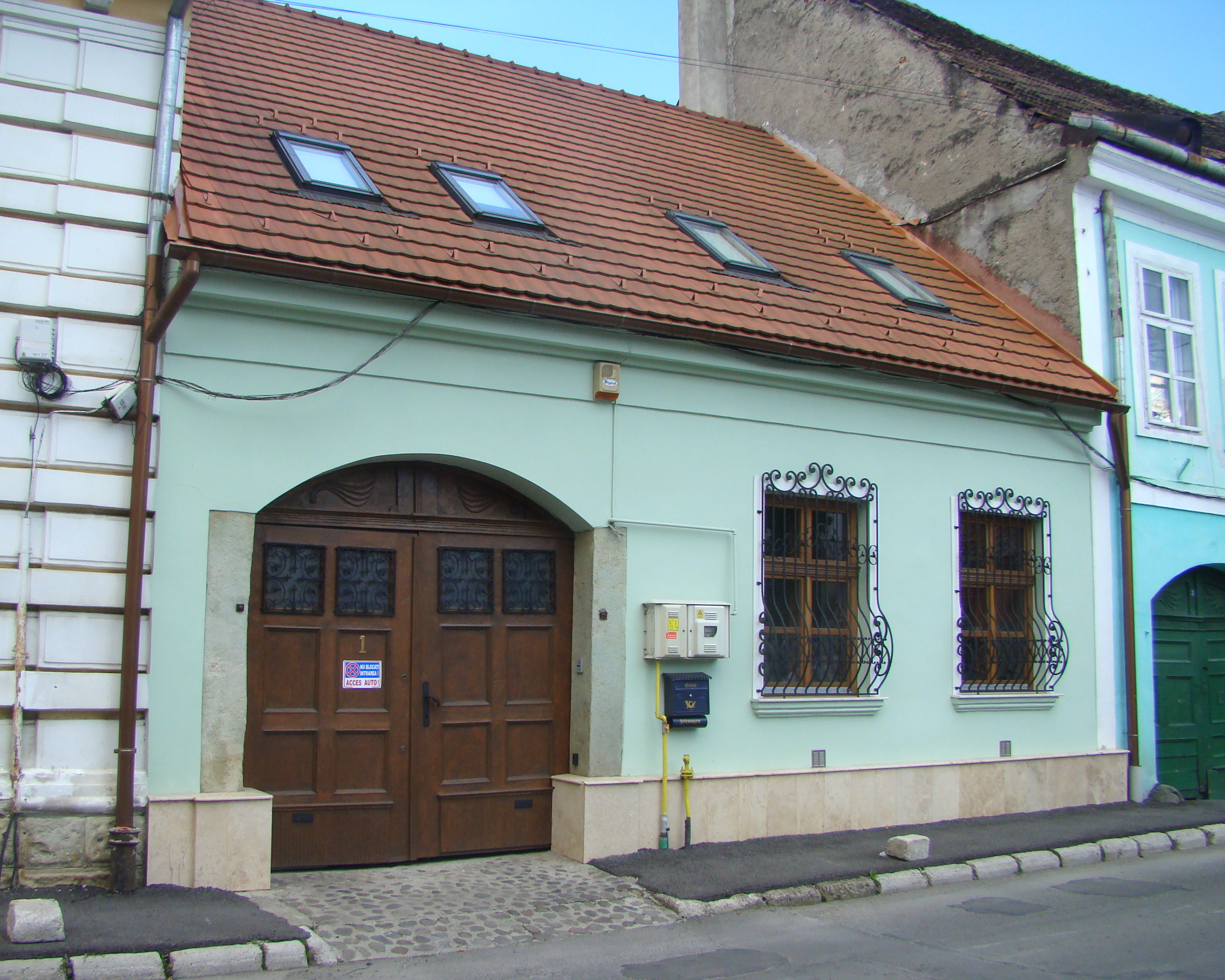 House, historic monument, in Bistrița, Constantin Dobrogeanu-Gherea street 1